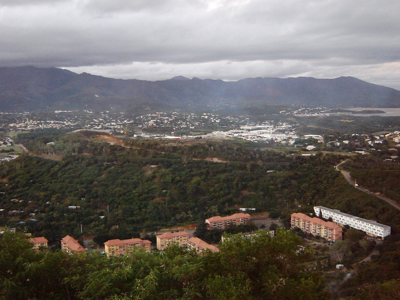 Noumea, New Caledonia on a cloudy day in 2006.